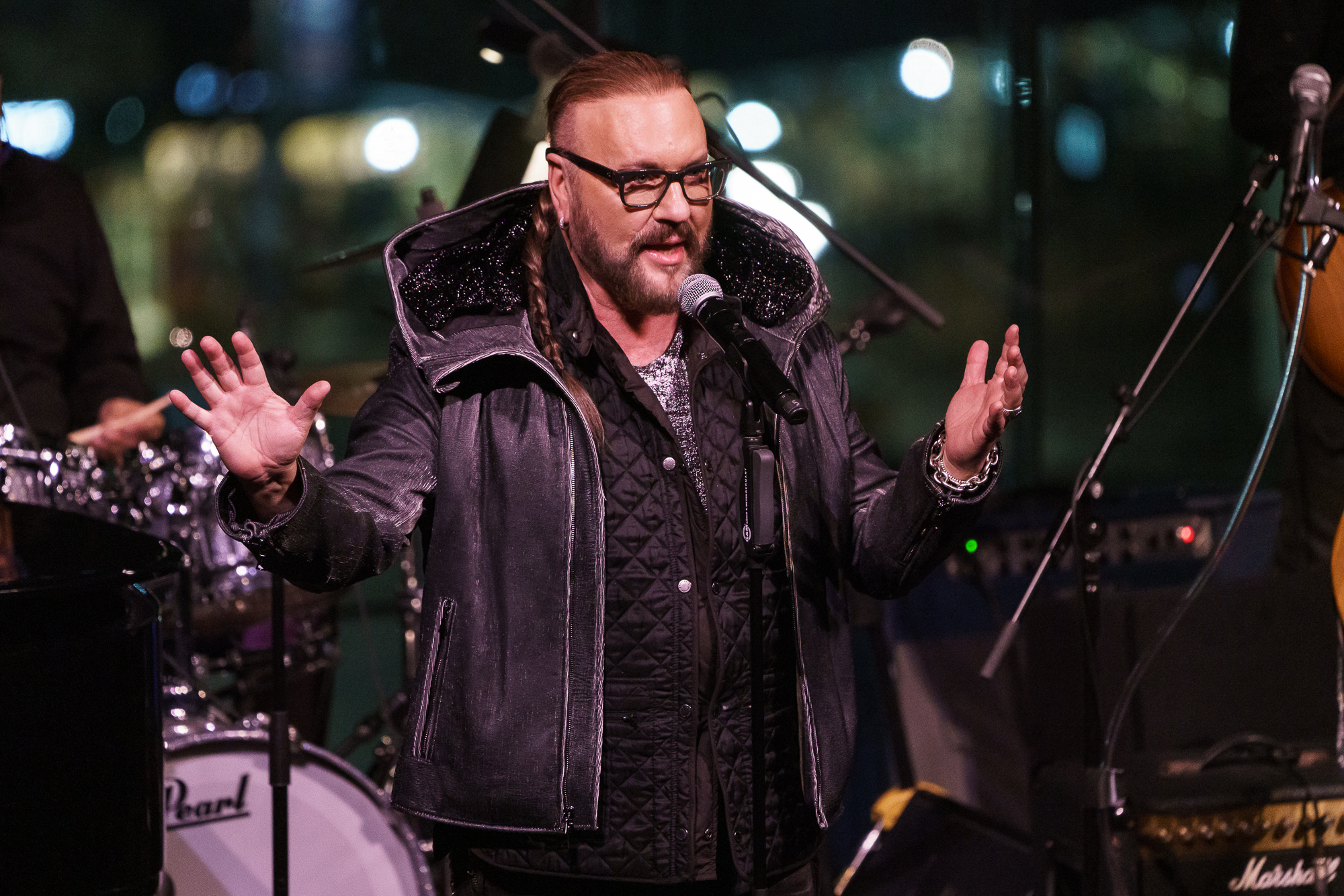 Appel Room February 16, 2019 Photo by Steven Pisano